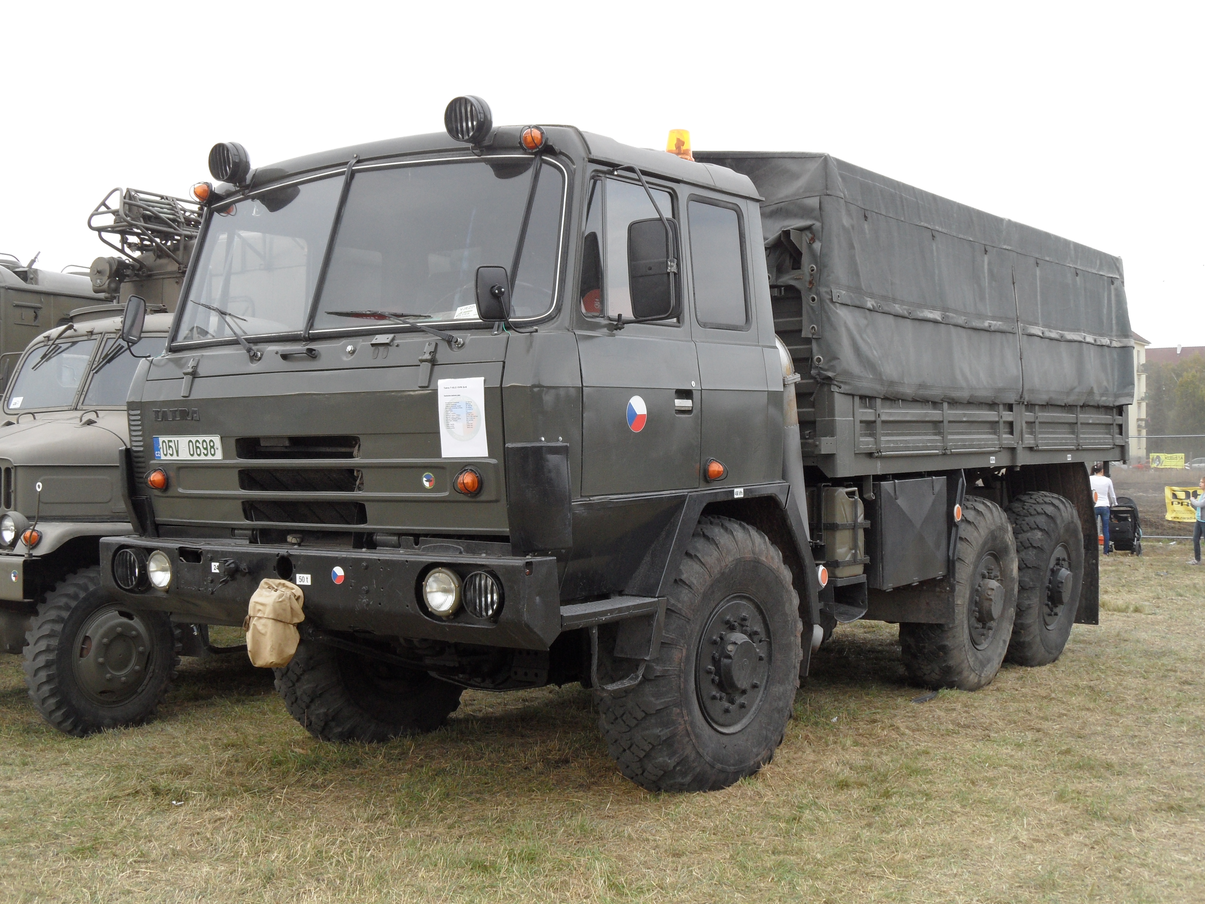 Retro City. Saturday: Main Programme, Military Vehicles M05. Tatra T-815 VVN 6x6. Pardubice, Pardubice District, the Czech Republic.